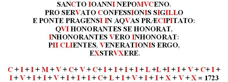 Inscription, which is a chronogram on statue of Jan Nepomucen near church św. Macieja in Wroclaw.